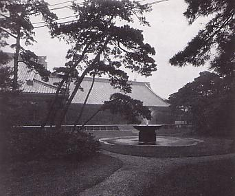 Square of Meiji Palace